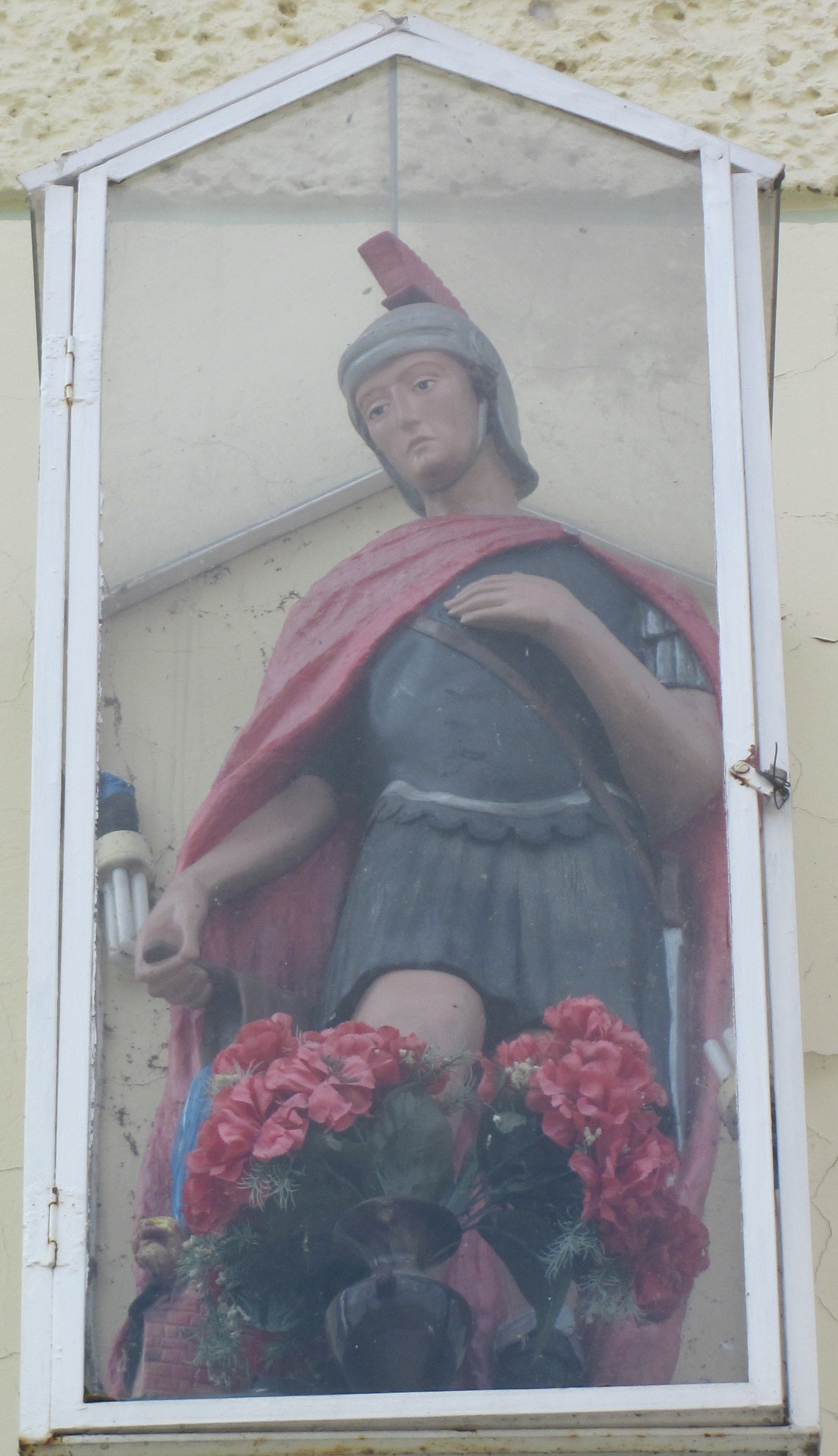 Florian of Lauriacum sculpture on the front wall of new OSP fire station in Brynica